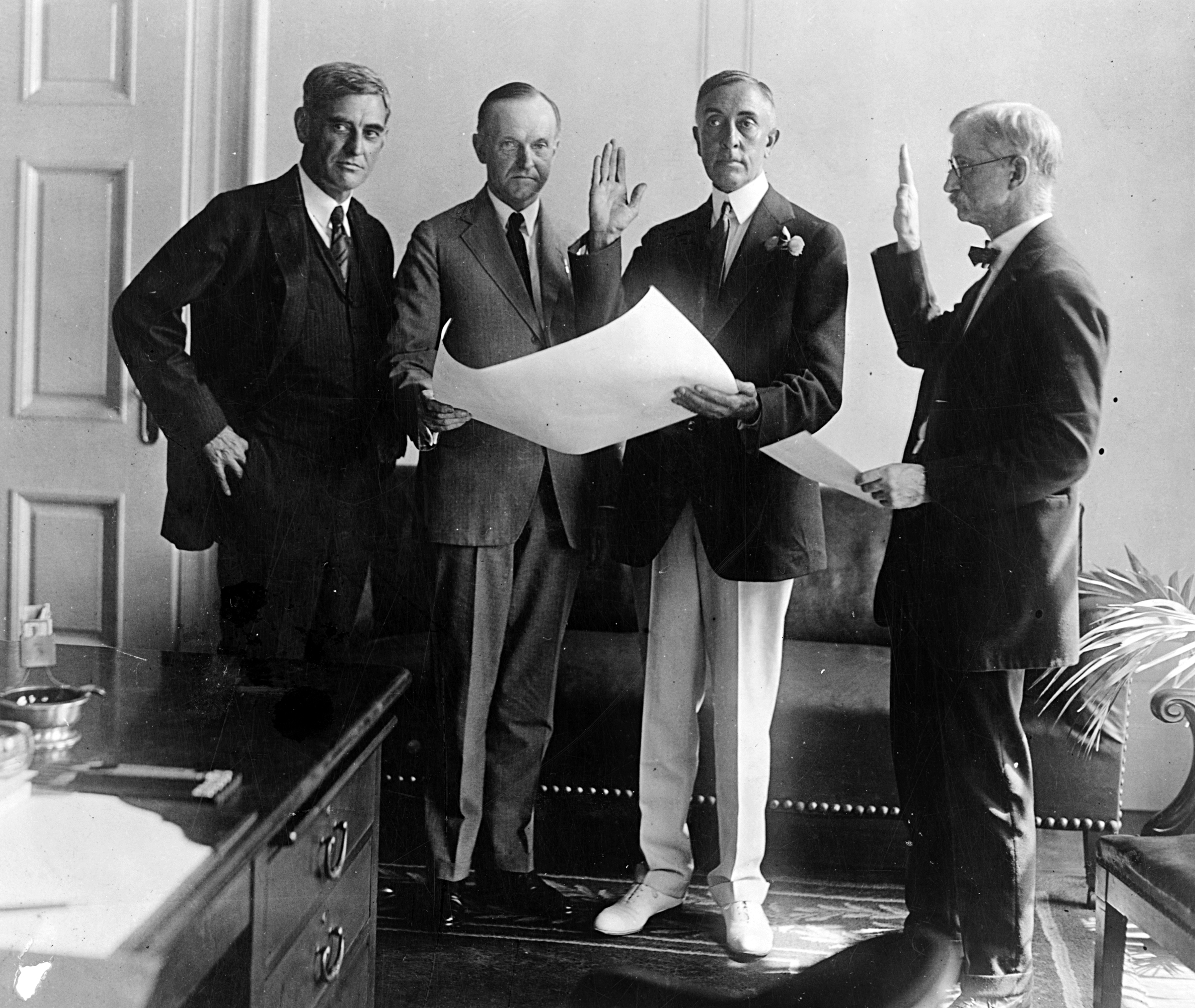 C. Bascom Slemp (2nd from right) is sworn in as personal secretary of US President Calvin Coolidge (2nd from left)